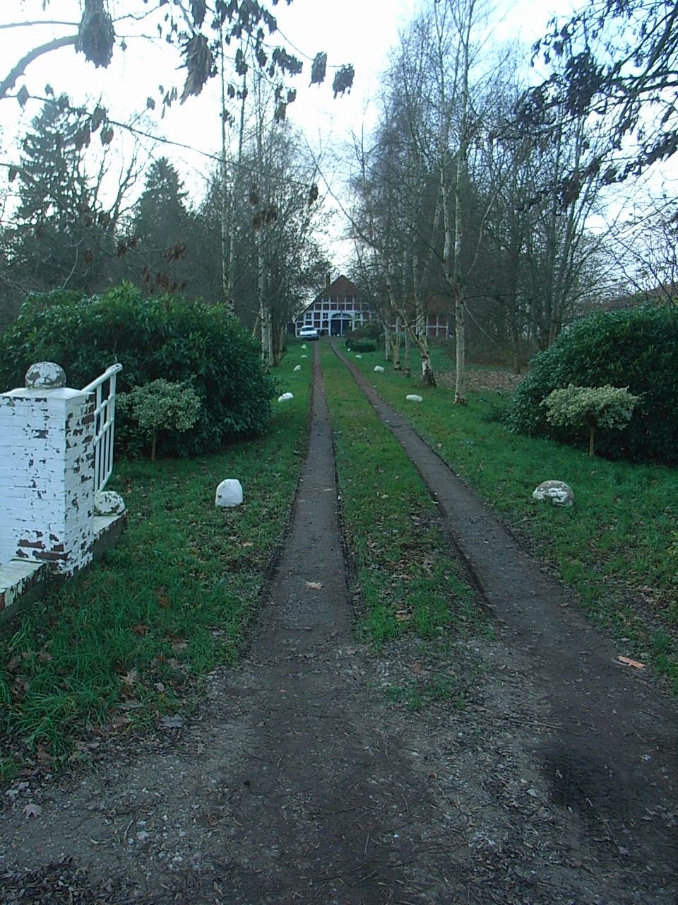 Typical Farmhouse of Moorriem/Lower Saxony/Germany